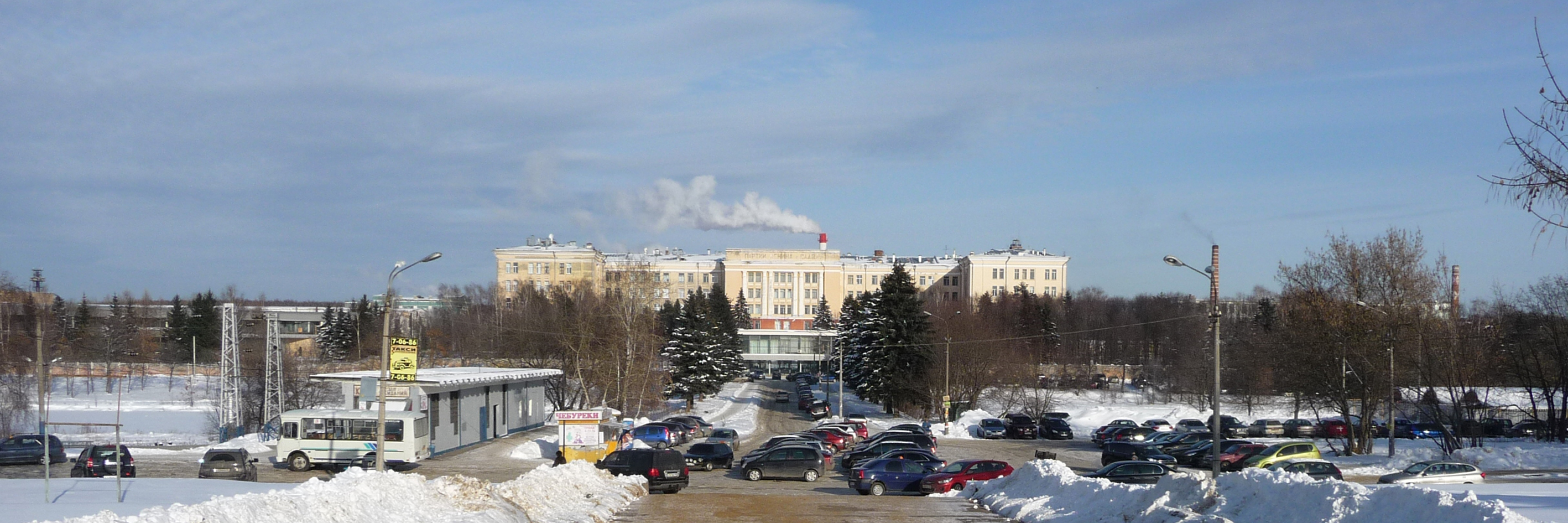 View on the 'Istok" - biggest enterprise of the town of Fryazino and on the station Fryazino-Passanger's building (on the left). Moscow oblast, Russia.